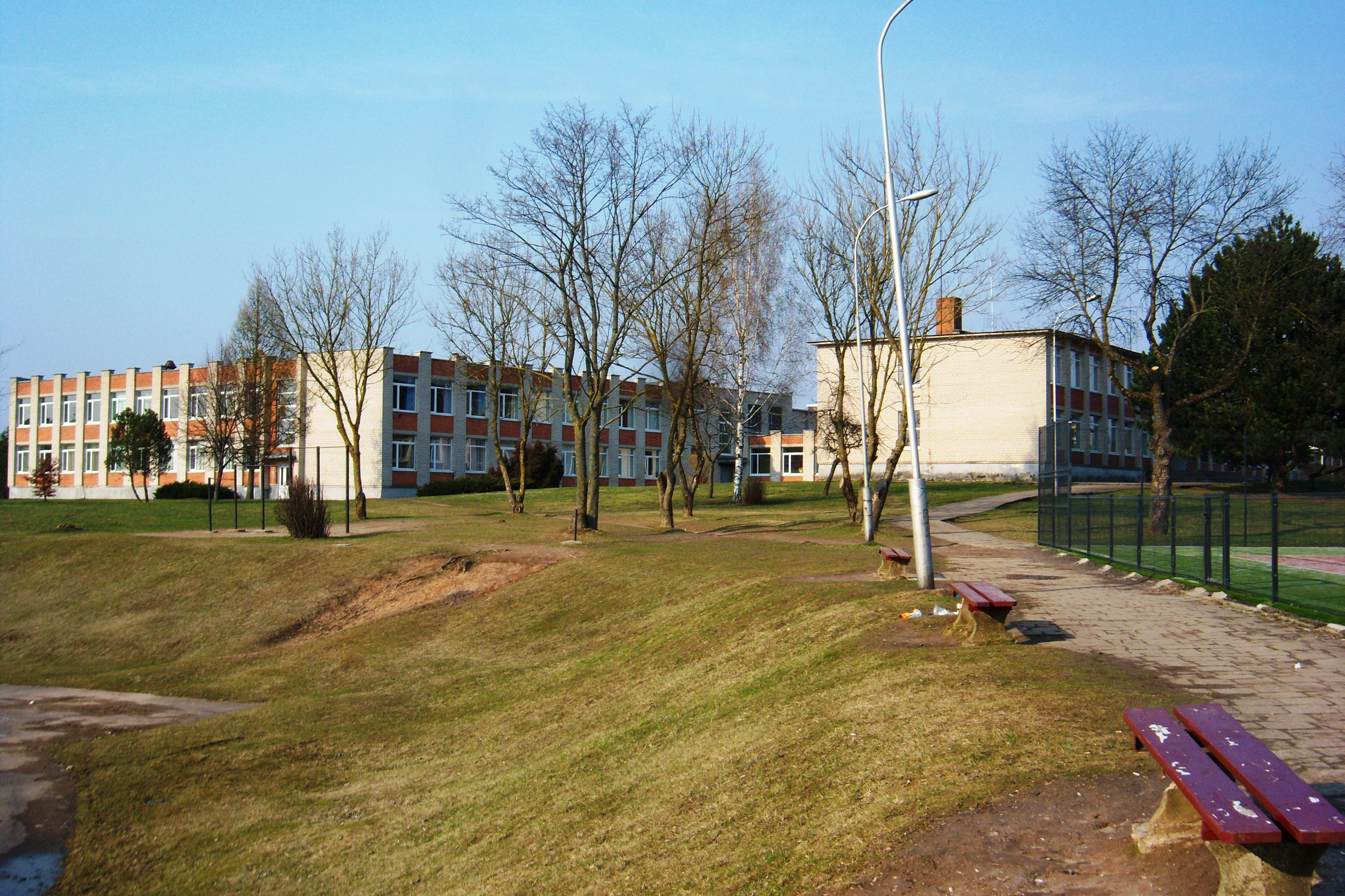 Gymnasium, Raudondvaris, Kaunas district, Lithuania